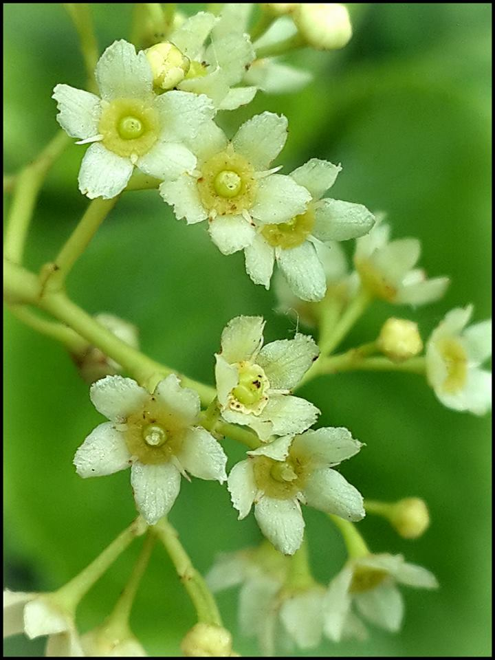 Flowers of Catha edulis (Vahl) Endl. - cultivated in Cape Province, South Africa